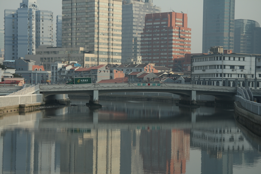 Fujian Road Bridge,Shanghai,China.2010-01-08